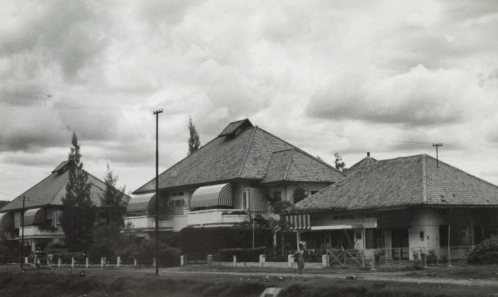 Houses of NHM employees at Kebon Sirih